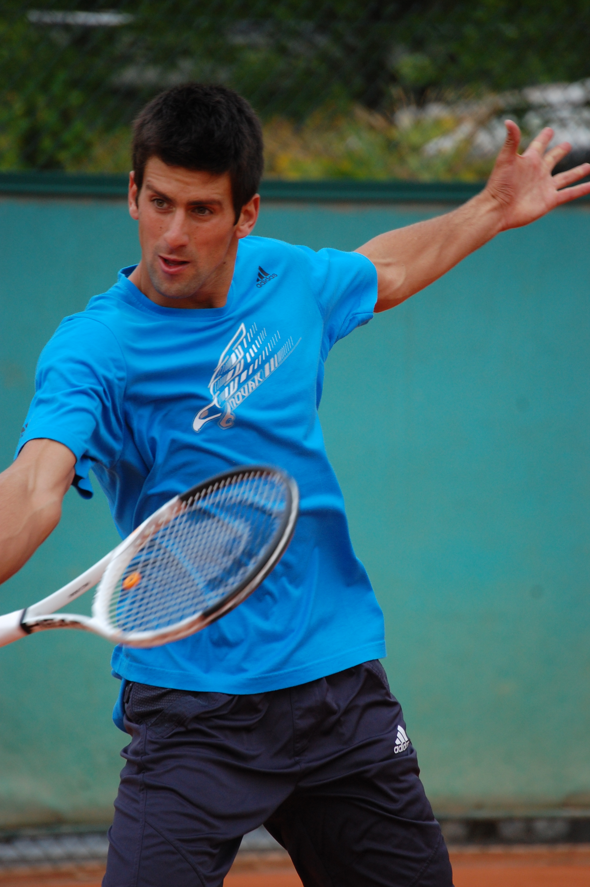 Novak Djokovic training in Roland Garros during 2009 French Open